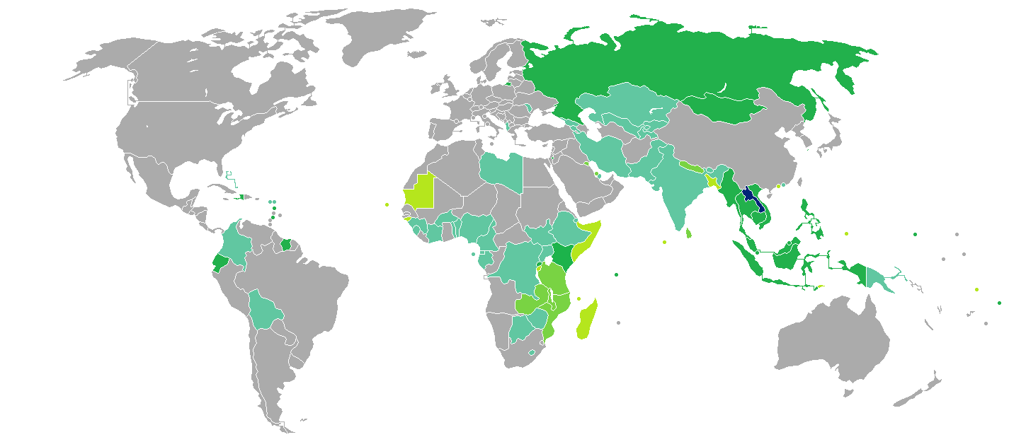 Visa requirements for Laos citizens Laos Visa free access Visa on arrival eVisa Visa available both on arrival or online Visa required